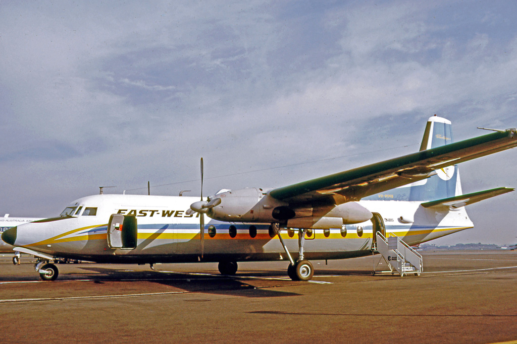 Fokker F.27 Friendship Srs 300 VH-MMB of East-West Airlines at Sydney Mascot in 1971